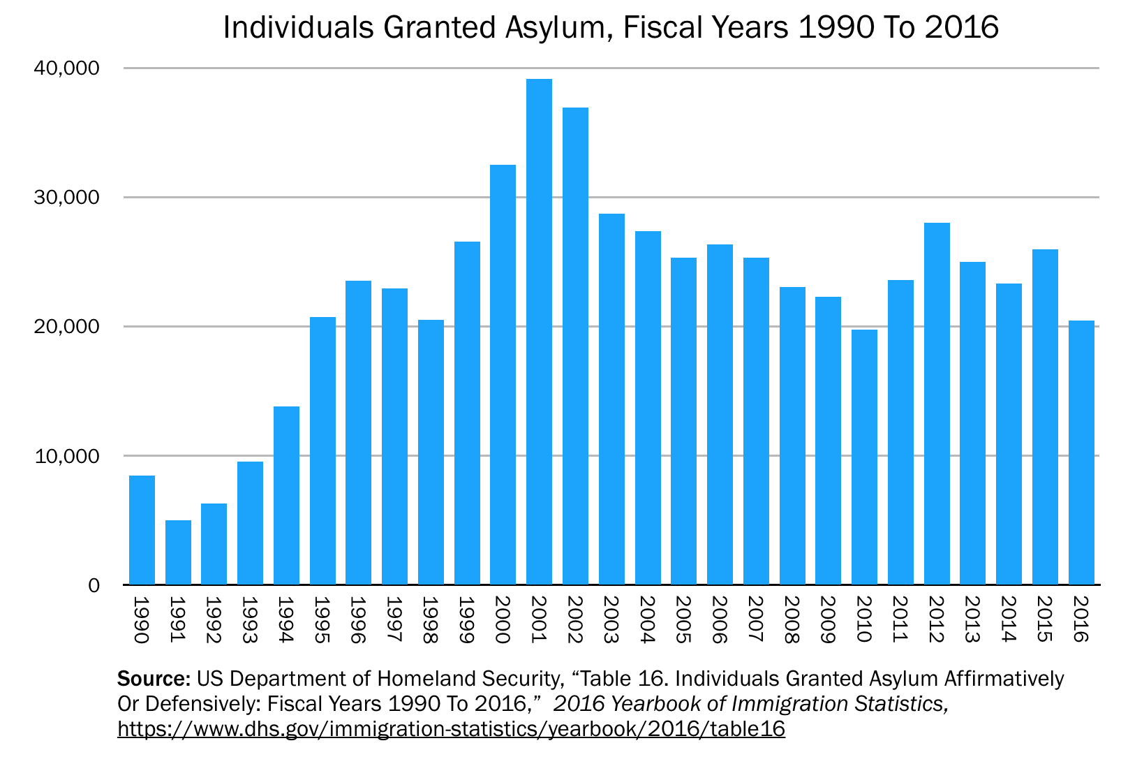 Chart of Individuals Granted Asylum, Fiscal Years 1990 To 2016. (US government fiscal years begin October 1 of the prior year.) Source: US Department of Homeland Security, “Table 16. Individuals Granted Asylum Affirmatively Or Defensively: Fiscal Years 1990 To 2016,” 2016 Yearbook of Immigration Statistics